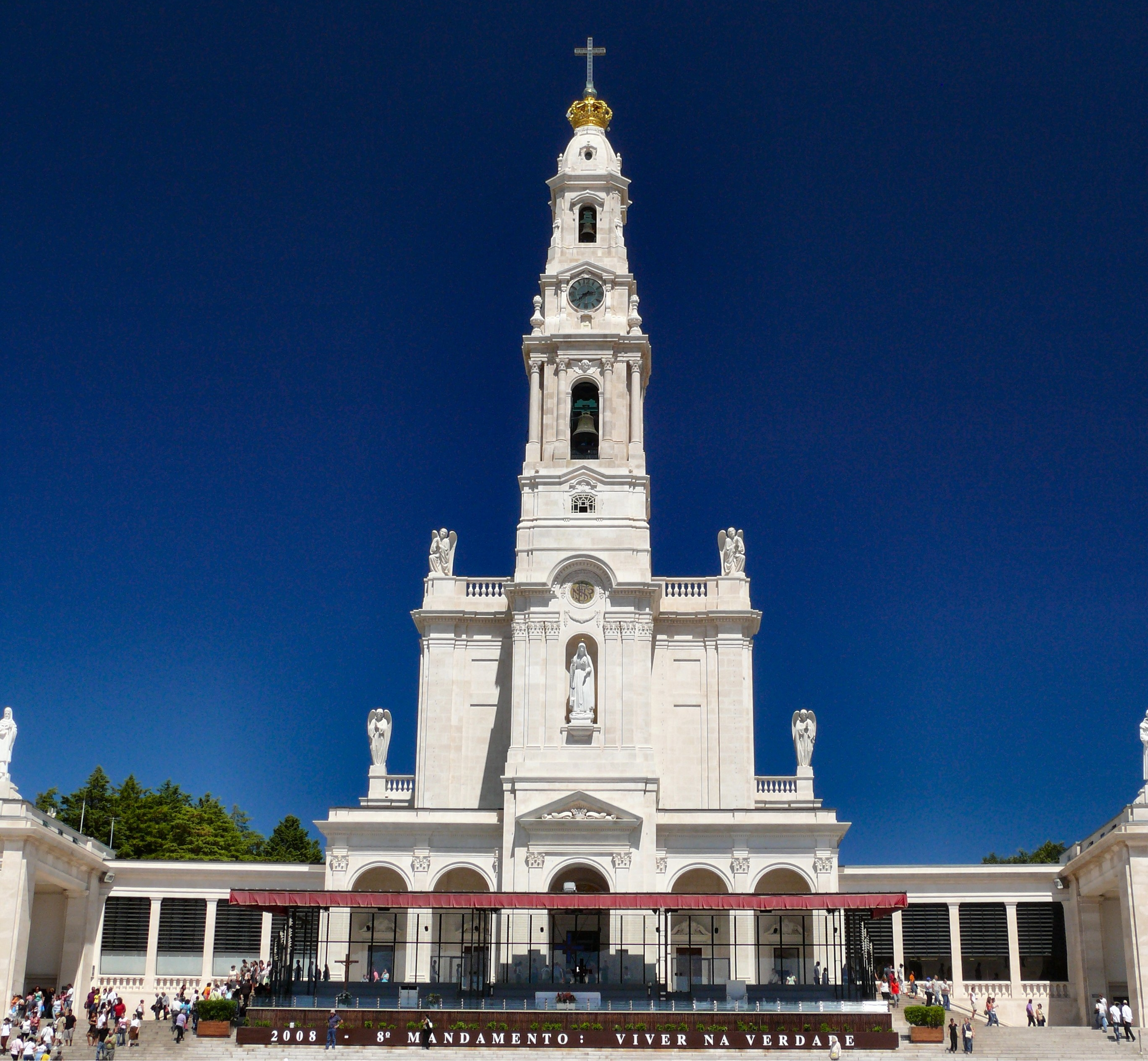 The virgin sanctuary of Fatima, Beira Littoral, District of Santarem, Centro region, Portugal, August 2008.